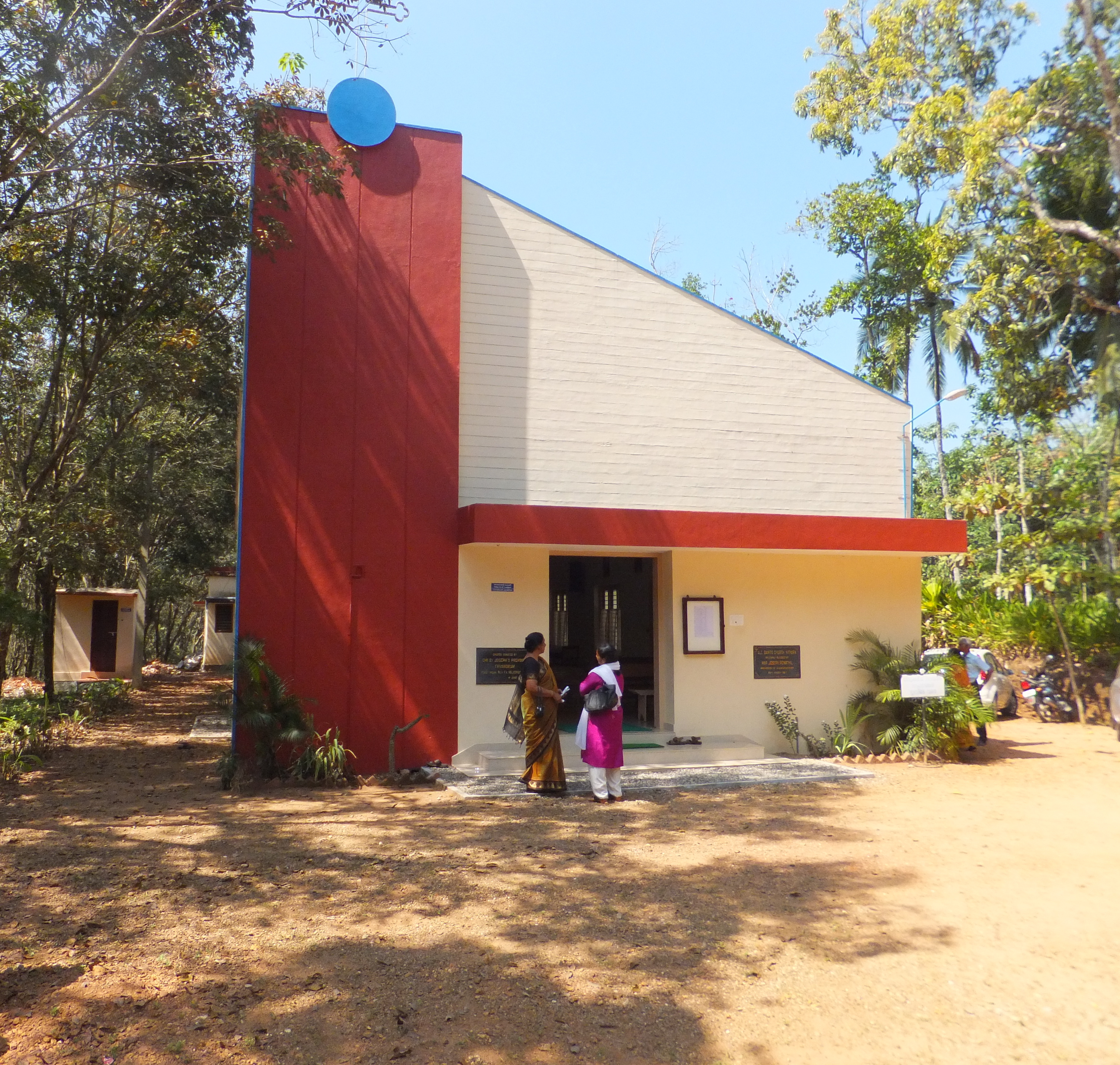 Front view of the All Saints Syro Malabar church at Koppam, Vithura